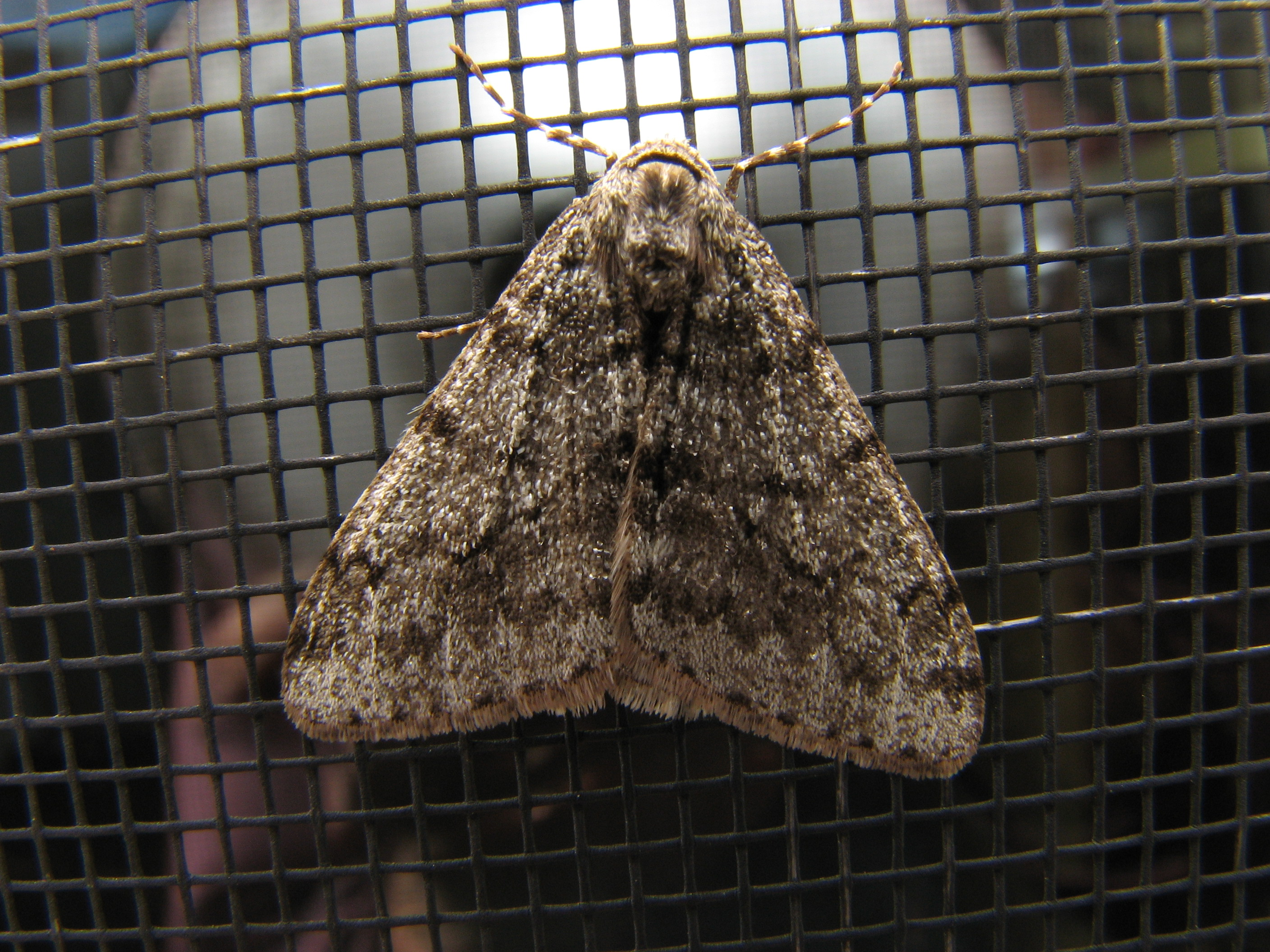 Geometrid moth, Phigalia strigataria male. Size: 24-26 mm wingspan. Willow Grove, Montgomery County, Pennsylvania, USA.